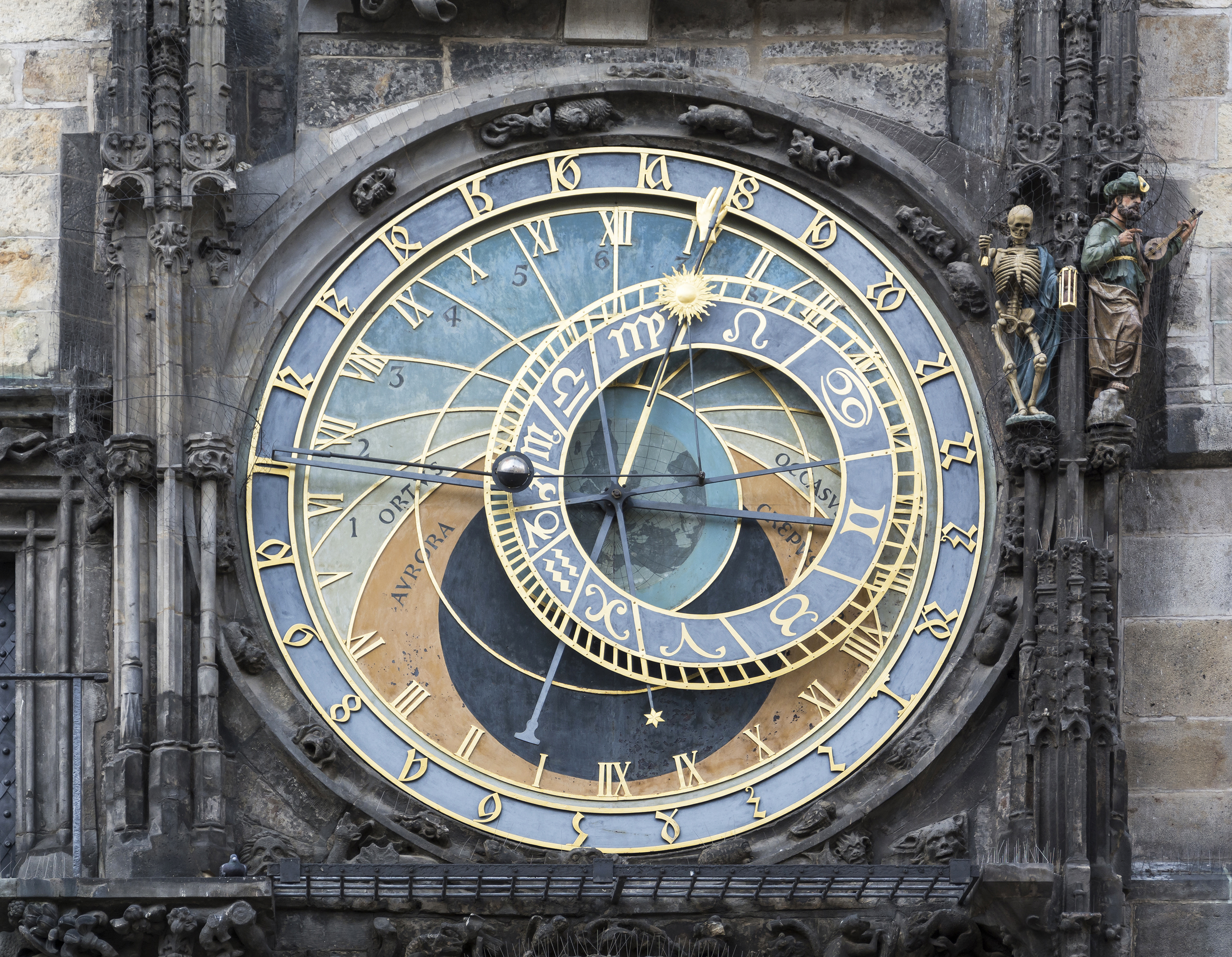 Prague Astronomical Clock